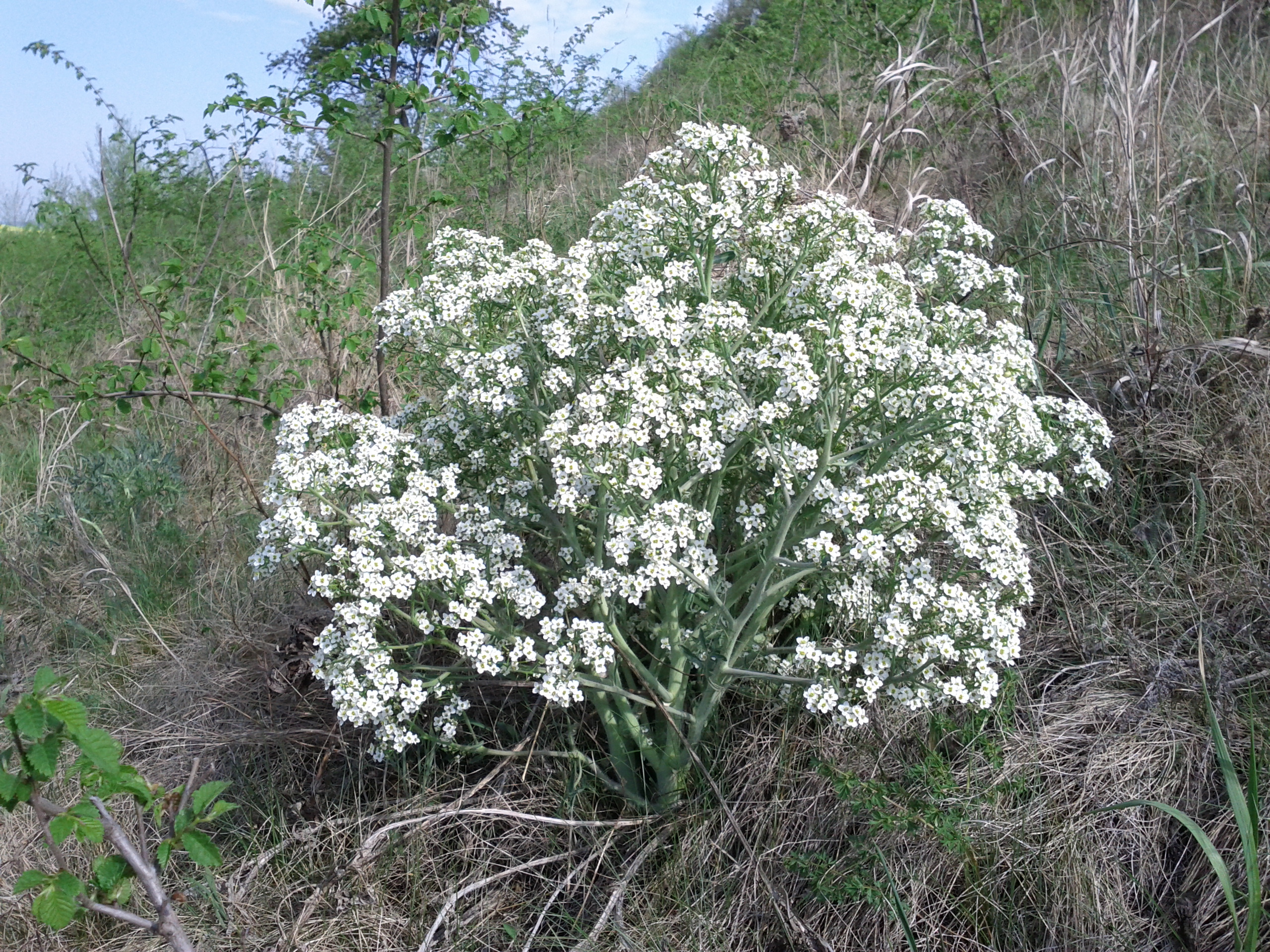 Habitus Taxonym: Crambe tataria ss Fischer et al. EfÖLS 2008 ISBN 978-3-85474-187-9 Location: Nature reserve Zeiserlberg near Ottenthal, district Mistelbach, Lower Austria - ca. 225 m a.s.l. Habitat: dry grassland on Loess